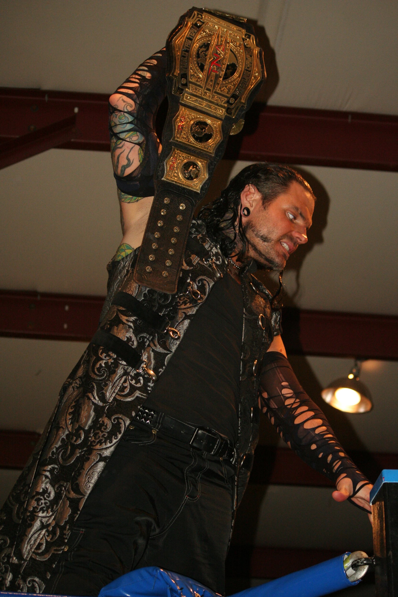 This image shows professional wrestler Jeff Hardy as his Brother Nero character at a Carolina Wrestling Federation (CWF) Mid-Atlantic independent show posing with his TNA World Tag Team Championship belt on January 29, 2017.